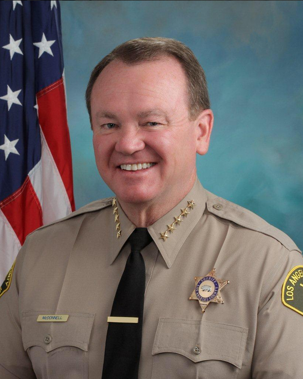 Official LASD photo of Sheriff Jim McDonnell